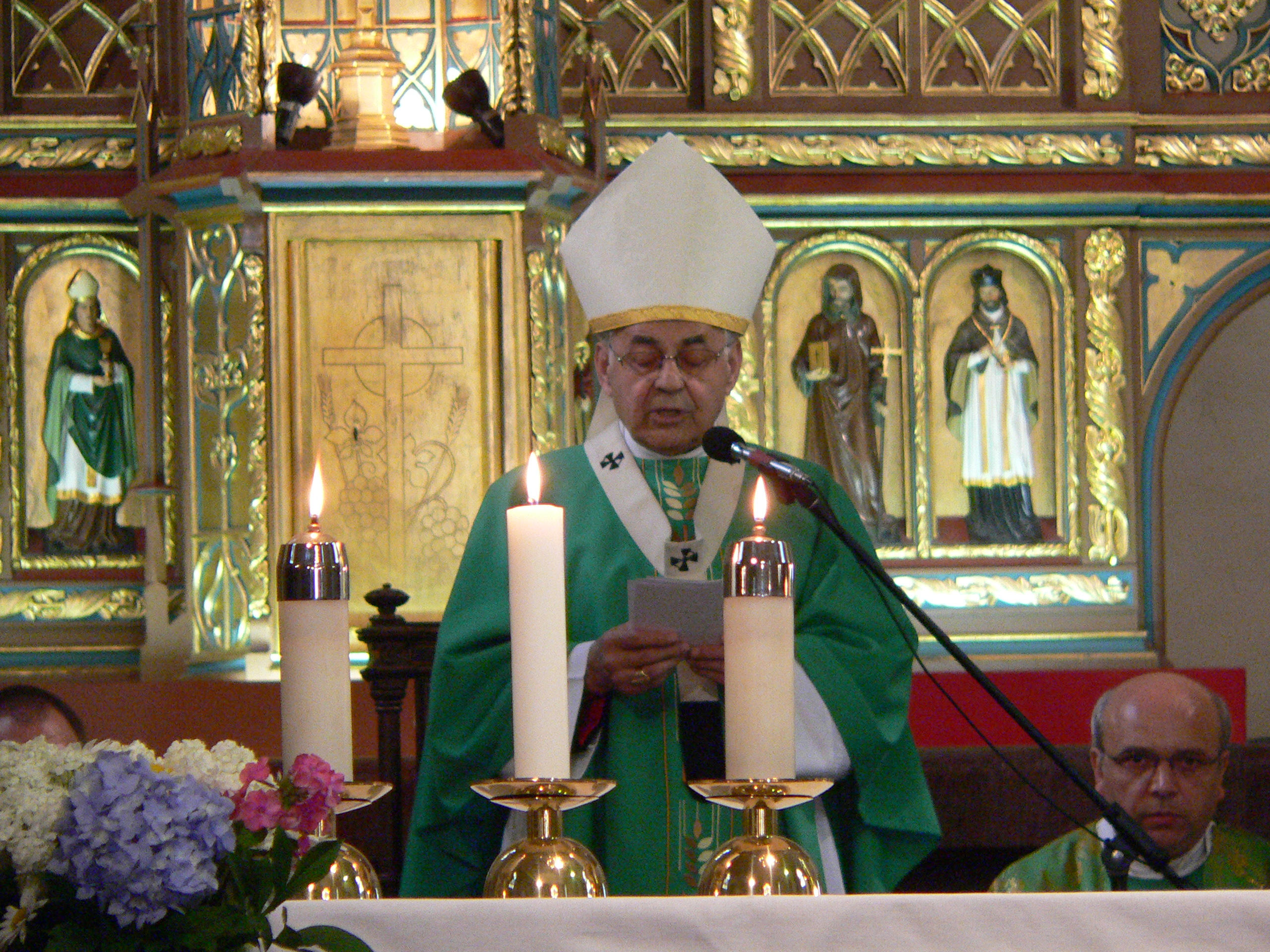 Esperanto Holy Mass, celebrated by Cardinal Miloslav Vlk during the International Youth Congress of Esperanto in the St. Anthony the Great Church, Liberec, Czechia.